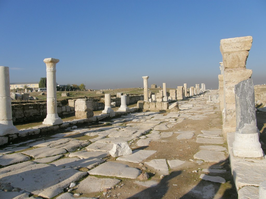 Turkey Laodicea